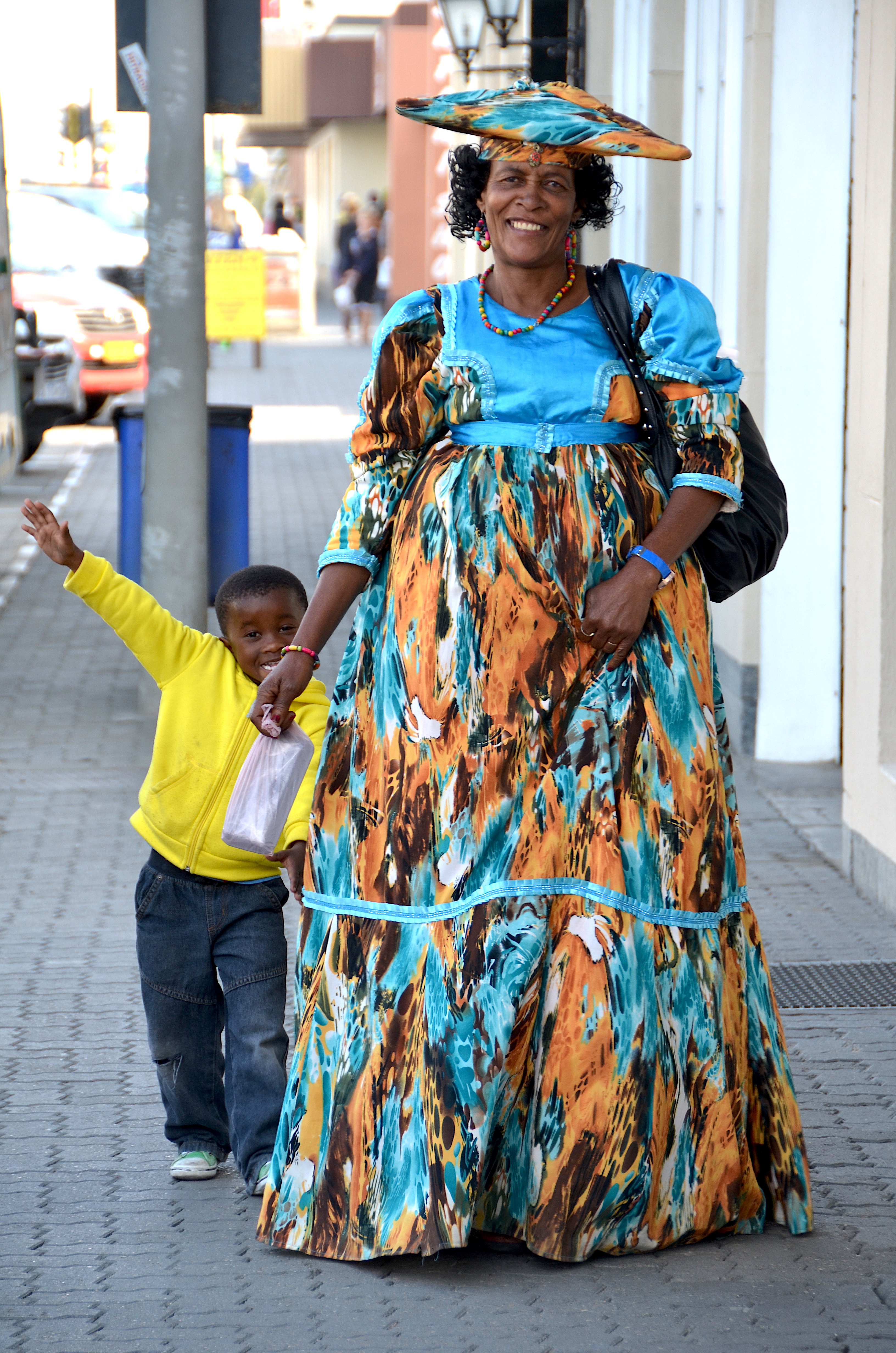 Herero woman with son in Swakopmund, Namibia